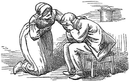 From 'Andersens Sproken en vertellingen' by Hans Christian Andersen, Titia van der Tuuk (ed.) and Simon Jacob Andriessen (trans.). Gebroeders E. & M. Cohen, Nijmegen - Arnhem. Illustrated by Alfred Walter Bayes (1832-1909) and engraved by the Dalziel Brothers (Edward Daziel, 1817-1905; George Daziel, 1815-1902).